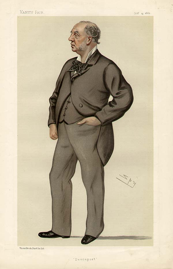 Caricature of John Henry Puleston MP. Caption read "Devonport".